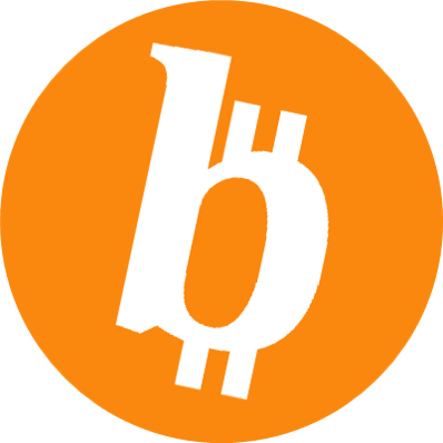 BCC Ticker splash - New BCC brand